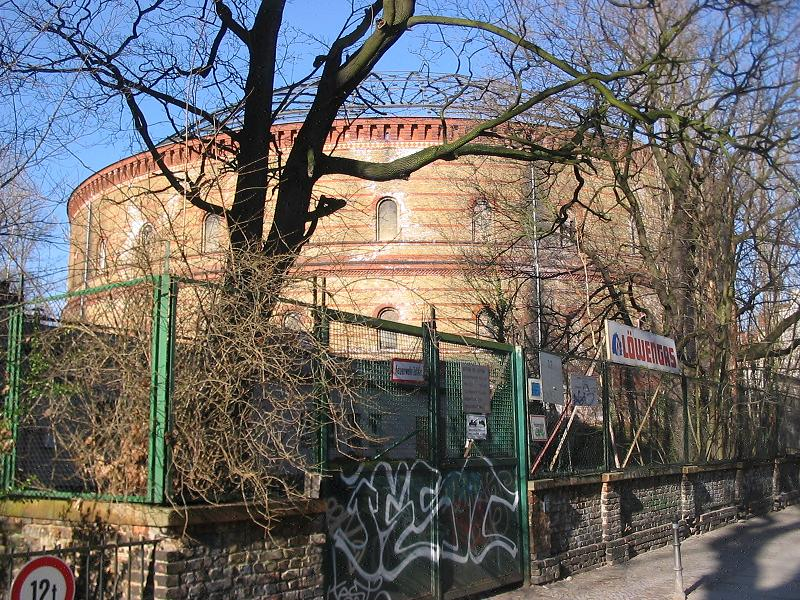 Listed Fichtebunker in the Fichtestreet, Berlin-Kreuzberg. It’s the oldest conserved Stonegasometer in Berlin. Built in 1874 by the civil engineer Johann Wilhelm Schwedler. In WWII used as air-raid shelter.